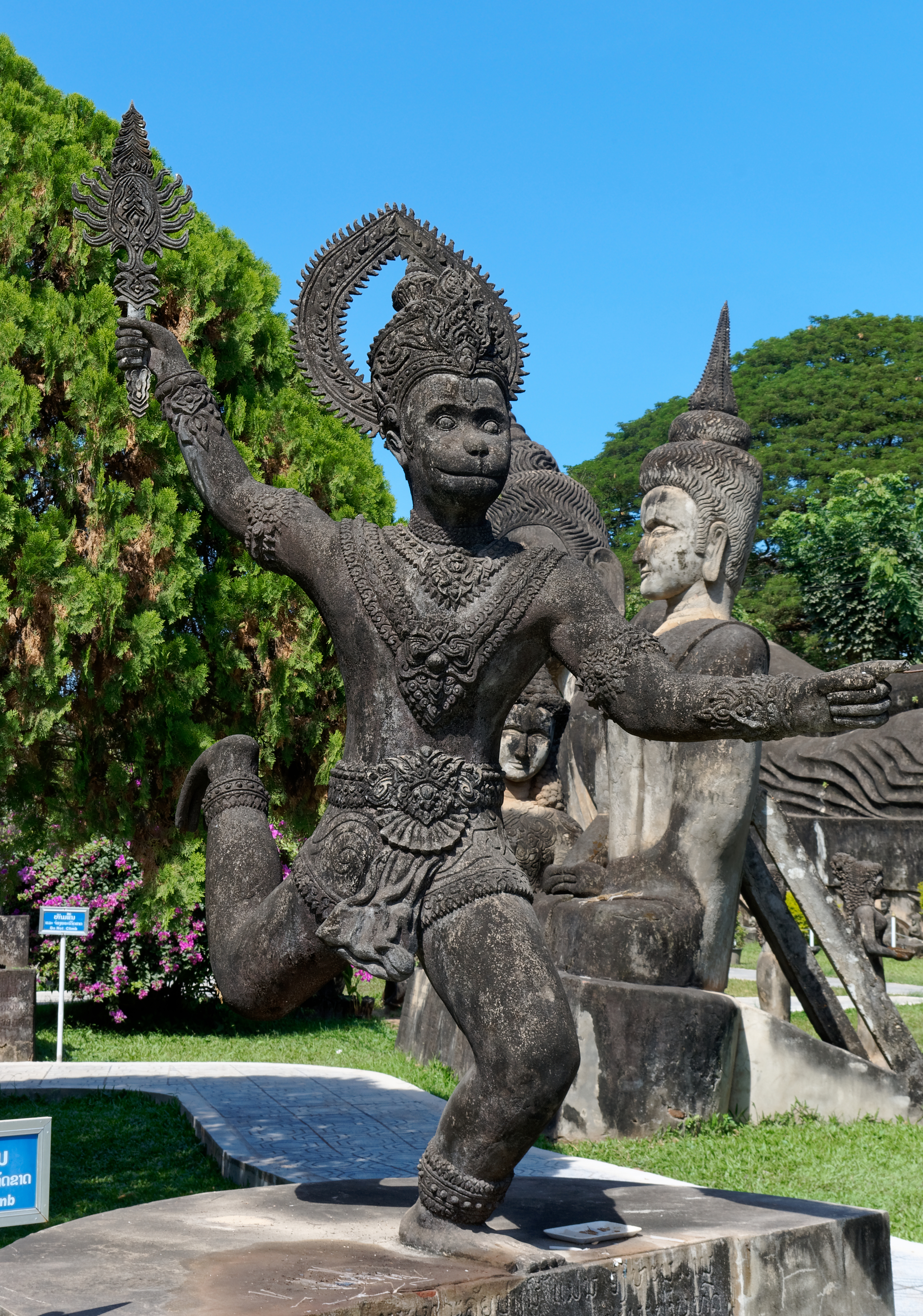 Hanuman statue at Buddha Park in Vientiane